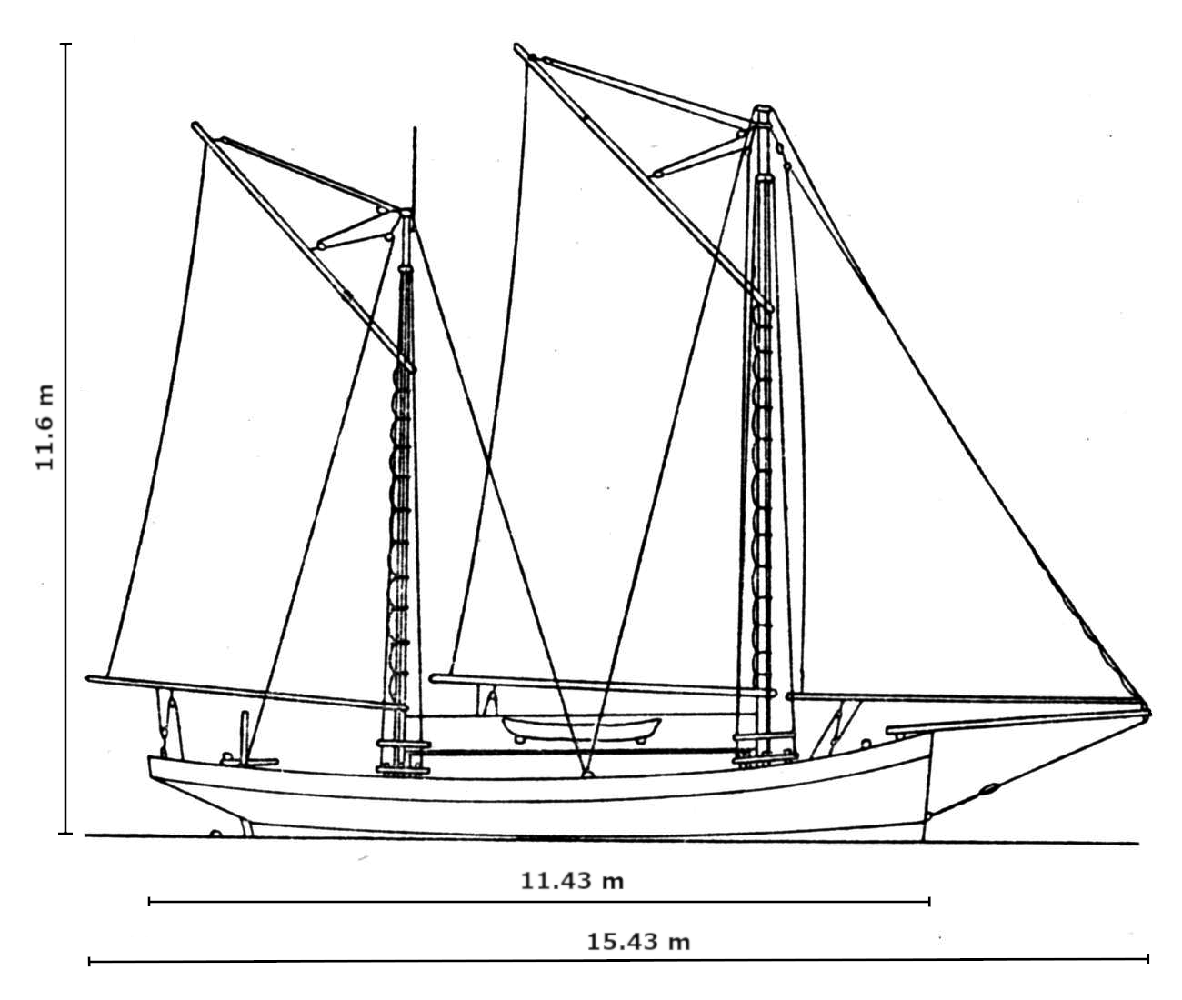 A ketch-rigged lambo from Bonerate, drawn from a boat in Singapore roads.